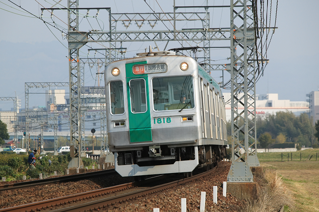 Kyoto Municipal Transportation Bureau Subway 10 Series late type whitch on Kintetsu Nara Line